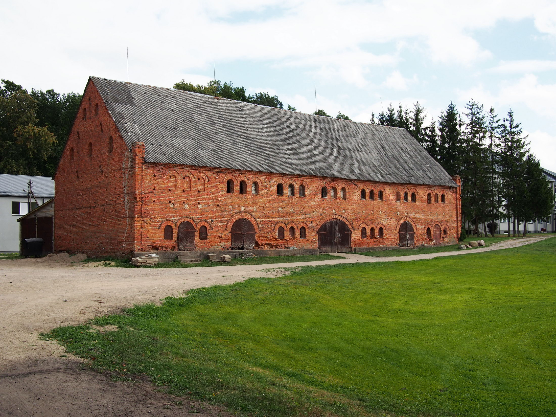 The granary at Gelgaudiškis manor